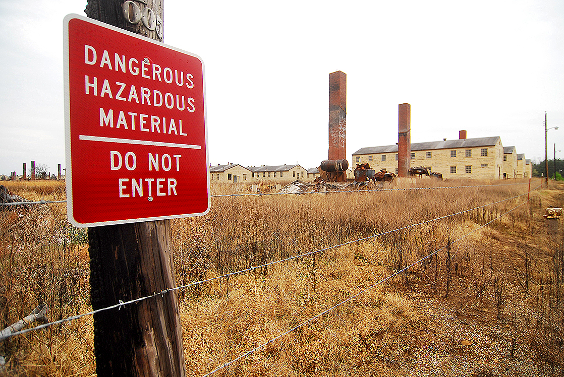 Part of Fort Chaffee